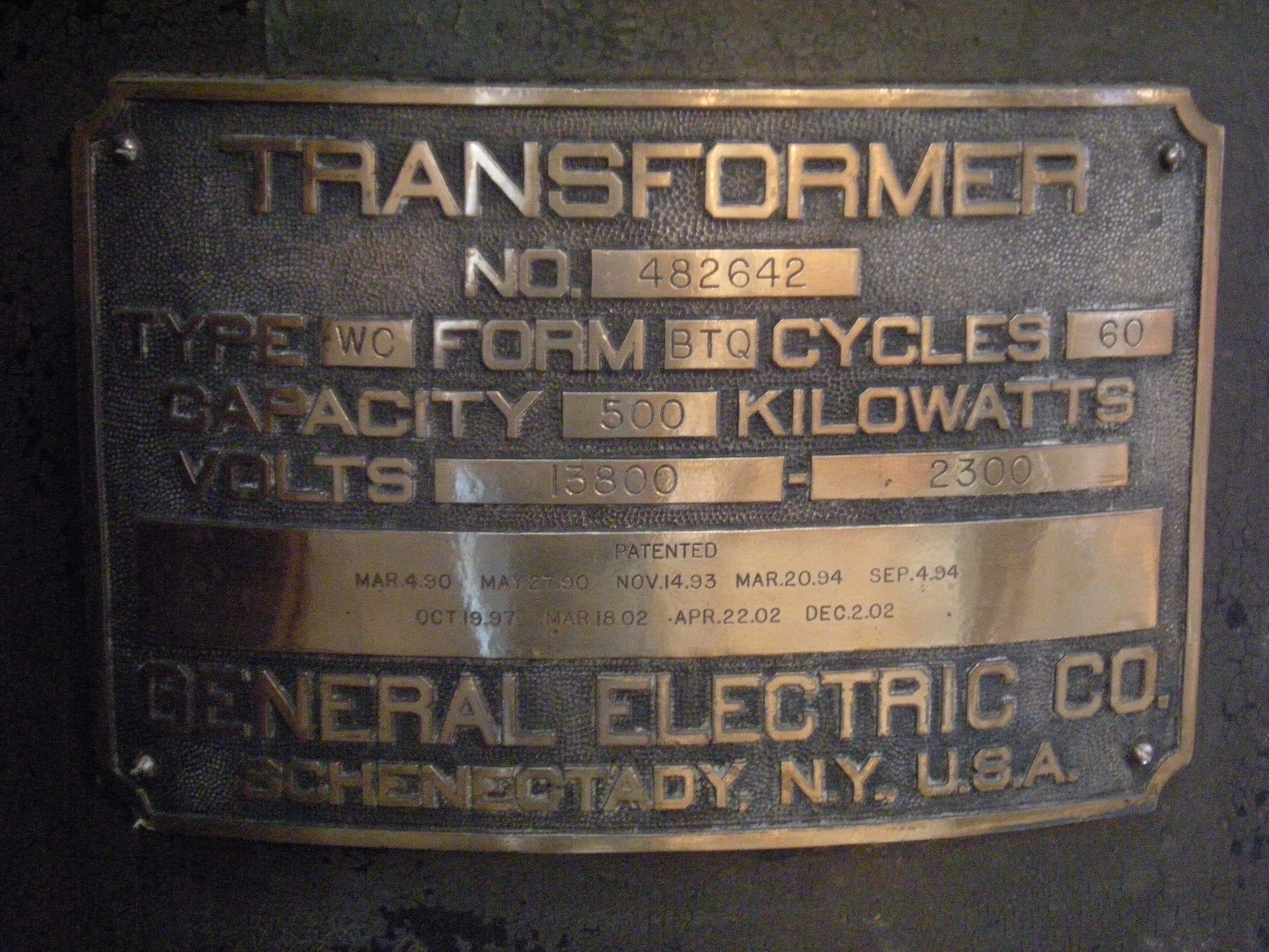 Plaque on a transformer, Georgetown PowerPlant Museum, Seattle, Washington, USA.